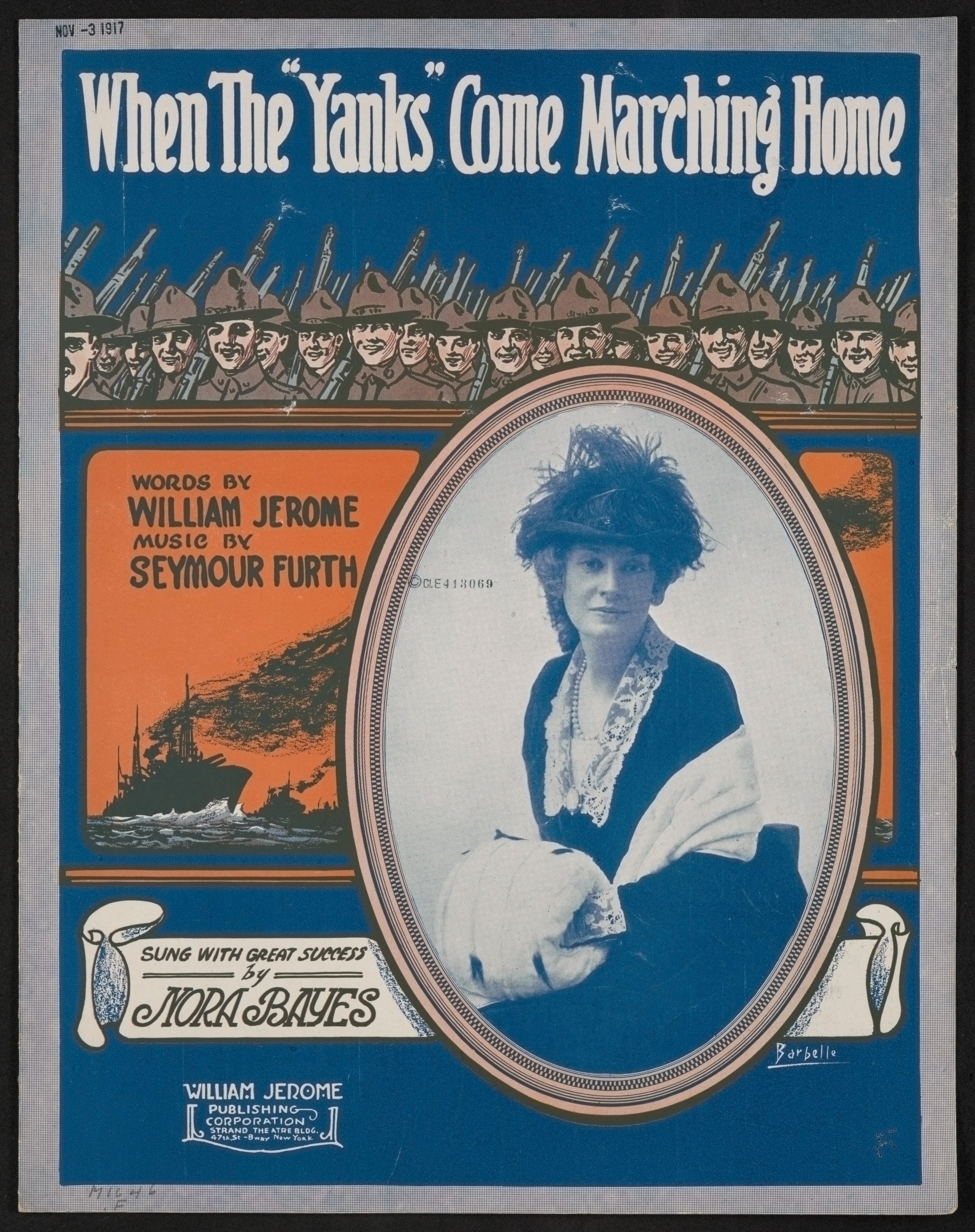 sheet music cover to "When the "yanks" come marching home" by Seymour Furth (composer) and William Jerome (lyricist)